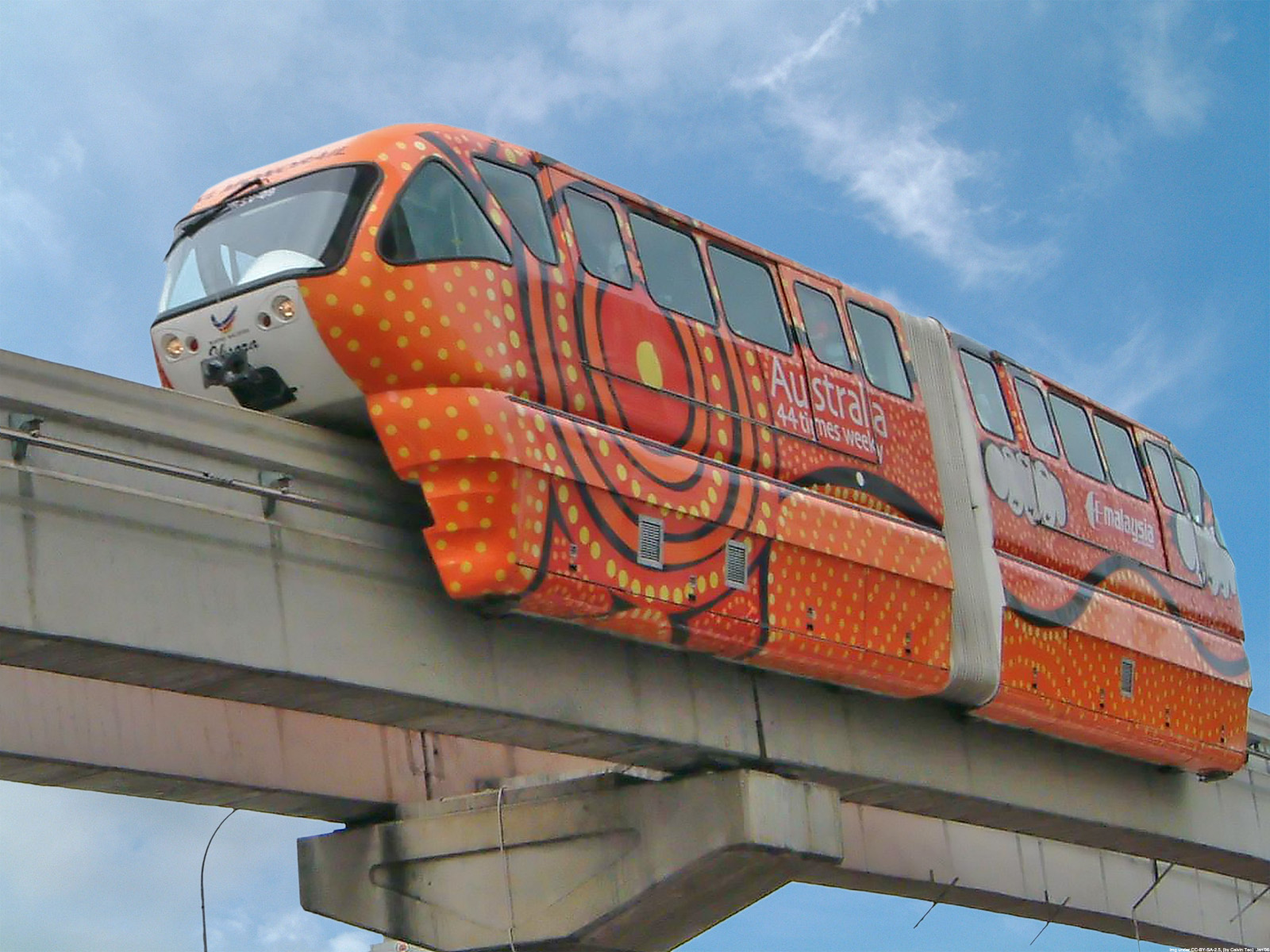 A KL Monorail Train running on an elevated viaduct in the heart of Kuala Lumpur Img by Calvin Teo Jan06